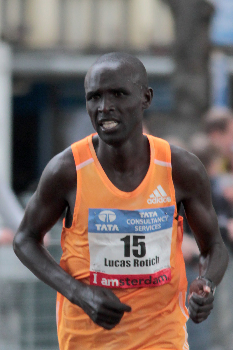 Lucas Rotich at the Amsterdam Marathon 2014, crop from